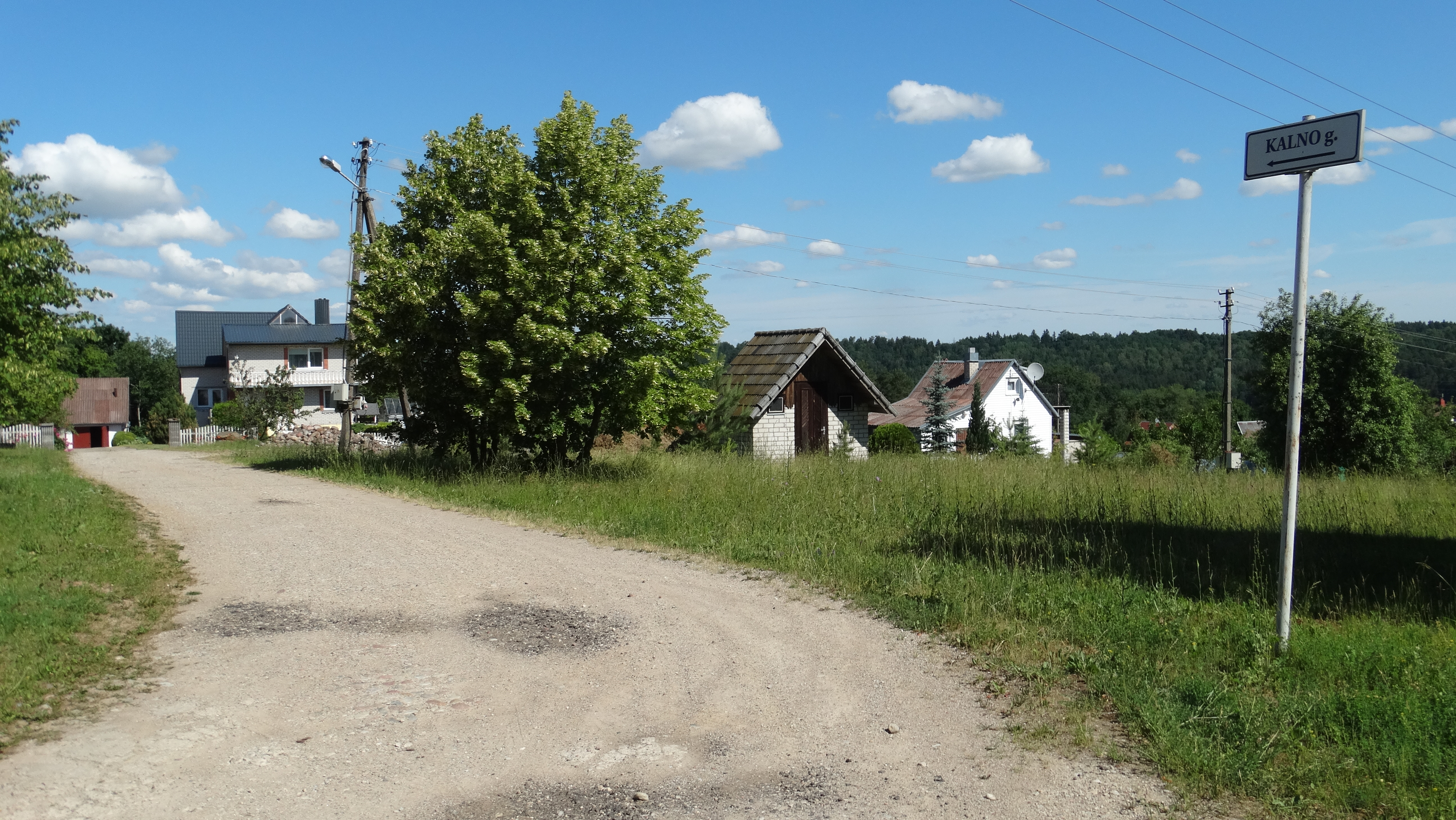 Plembergas, Raseiniai district, Lithuania